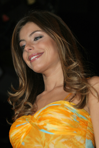 Brazilian model Daniela Cicarelli.